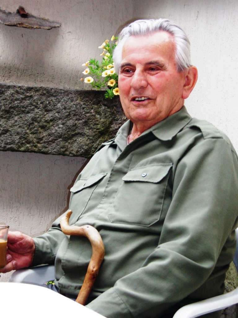 Luboš Hruška with coffee in his house in Plzeň - Doudlevce.